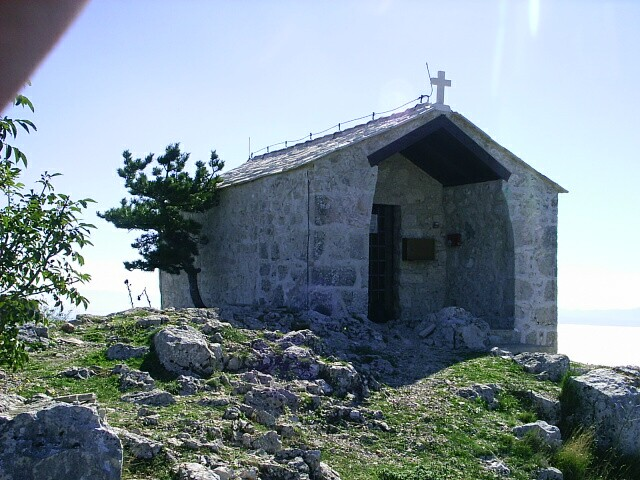 Hvar Island, Croatia